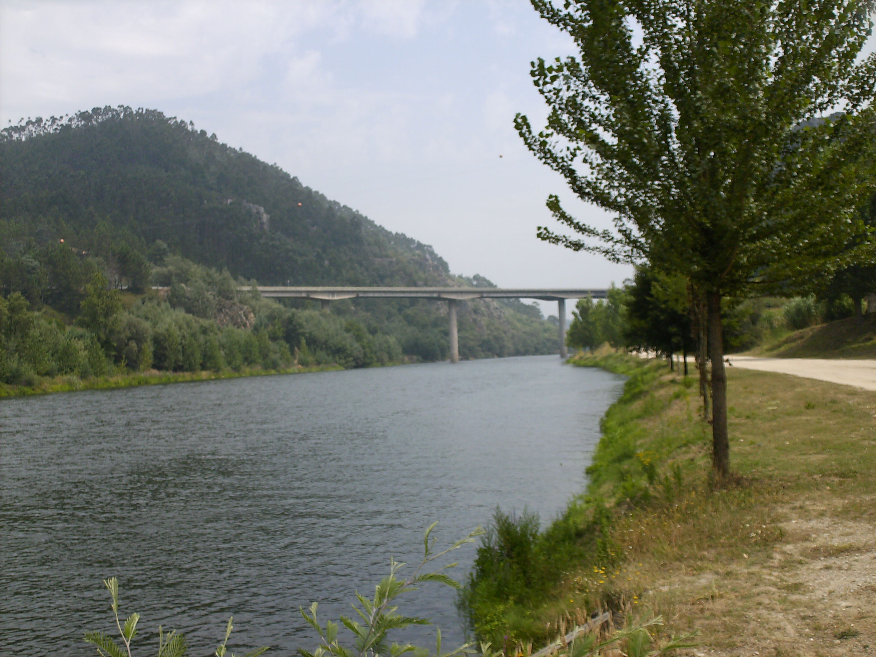 IP3 passage over the Mondego River in Penacova, Portugal.